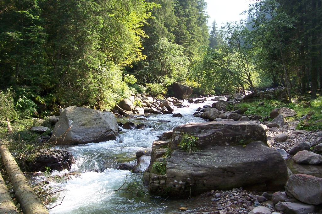 Allione river, Val Camonica